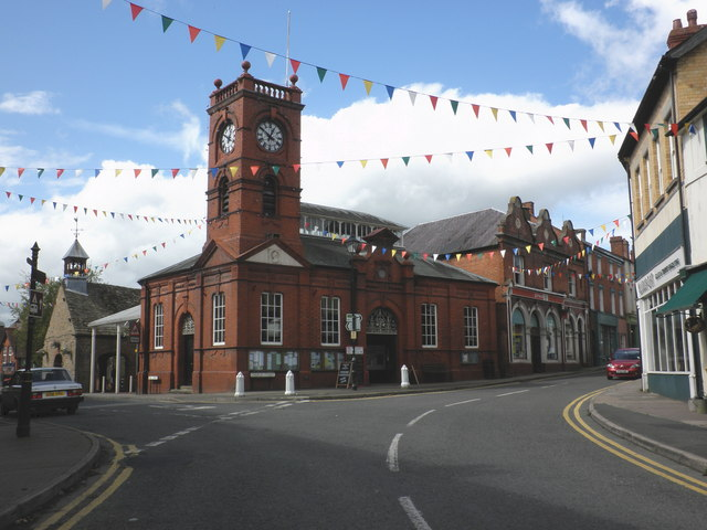 Market House and clock tower, Kington